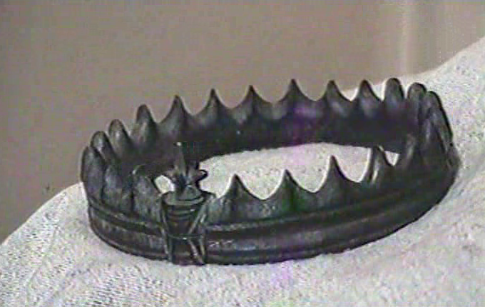 Torc. Jewellery artifacts from Bronze Age found in Ukraine